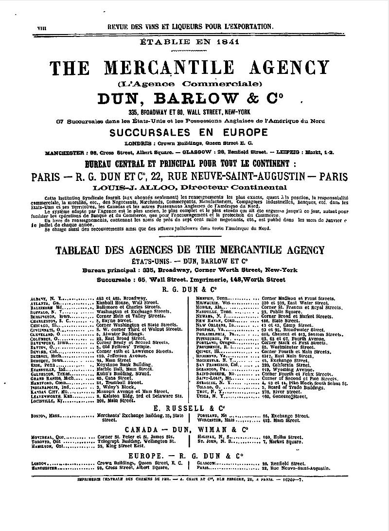 The Mercantile Agency. Dun, Barlow & Co, advertisement published in Paris, in Revue des vins et liqueurs et des produits alimentaires pour l'exportation.